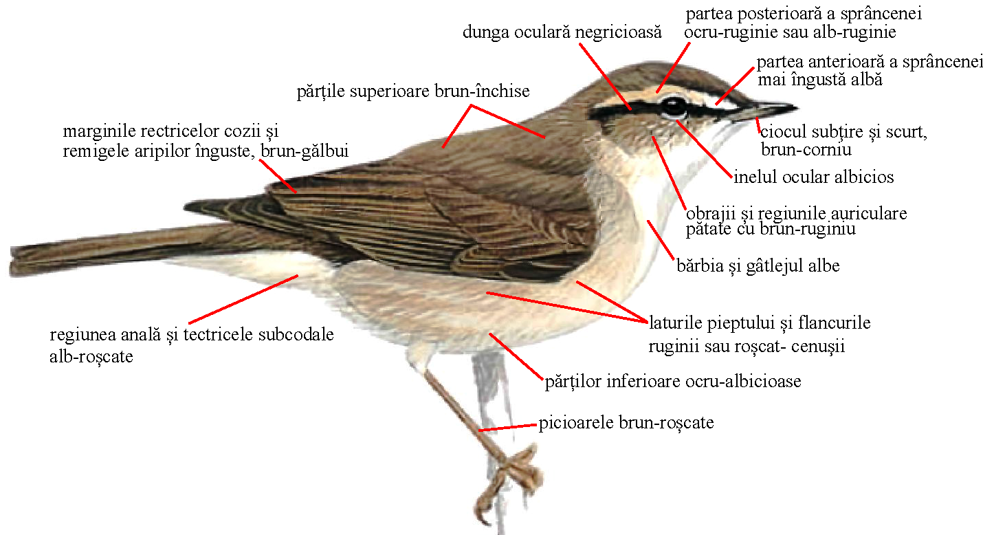 Phylloscopus fuscatus illustration